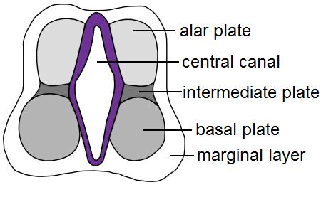 cross-section of an embryo's developing spinal cord